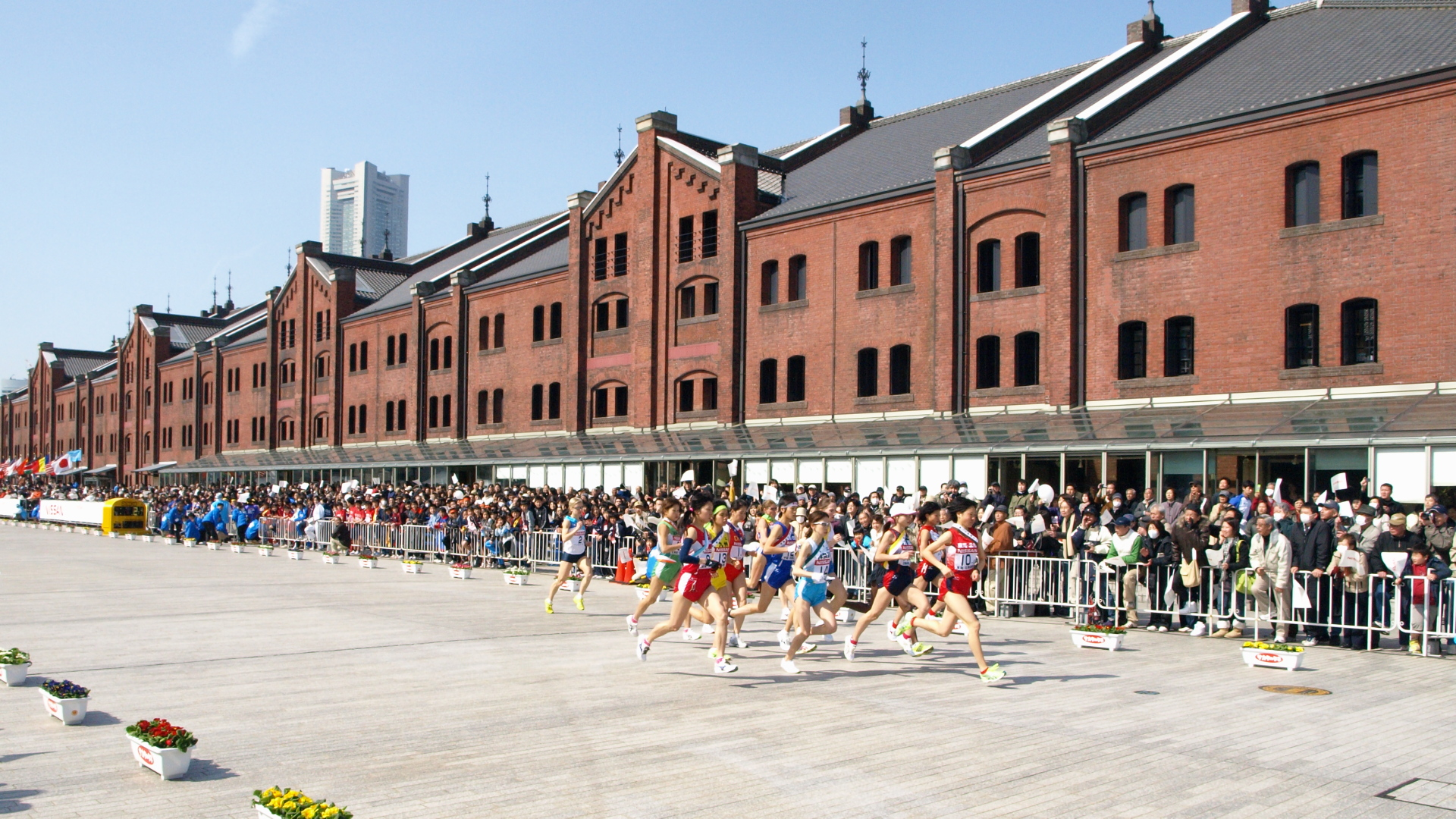 Yokohama International Women's Ekiden at the start of the race, Yokohama Red Brick Warehouse, Japan.